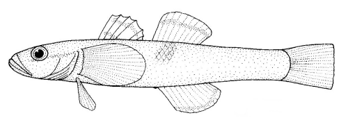 Grahamichthys radiata (Grahams gudgeon)